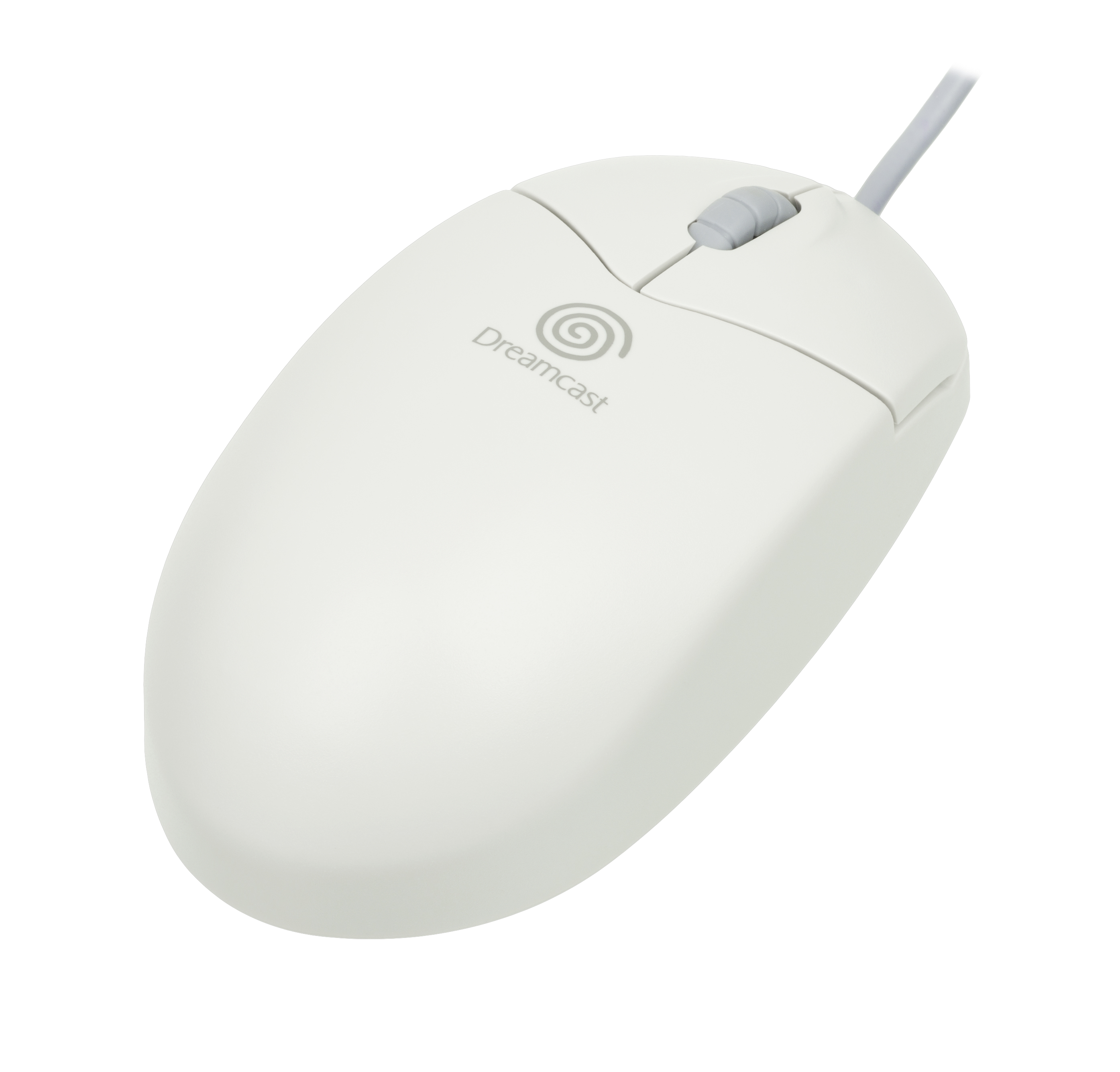 The official mouse for the Sega Dreamcast video game console, used mainly for web browsing.